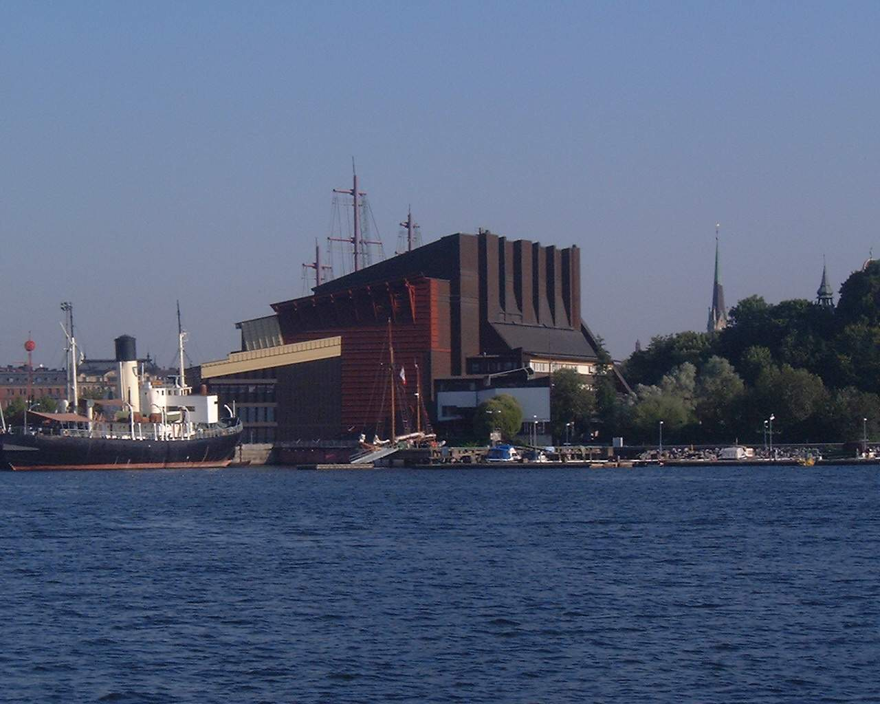 My photo of Vasamuseet in Stockholm. Photo taken in late summer 2005.